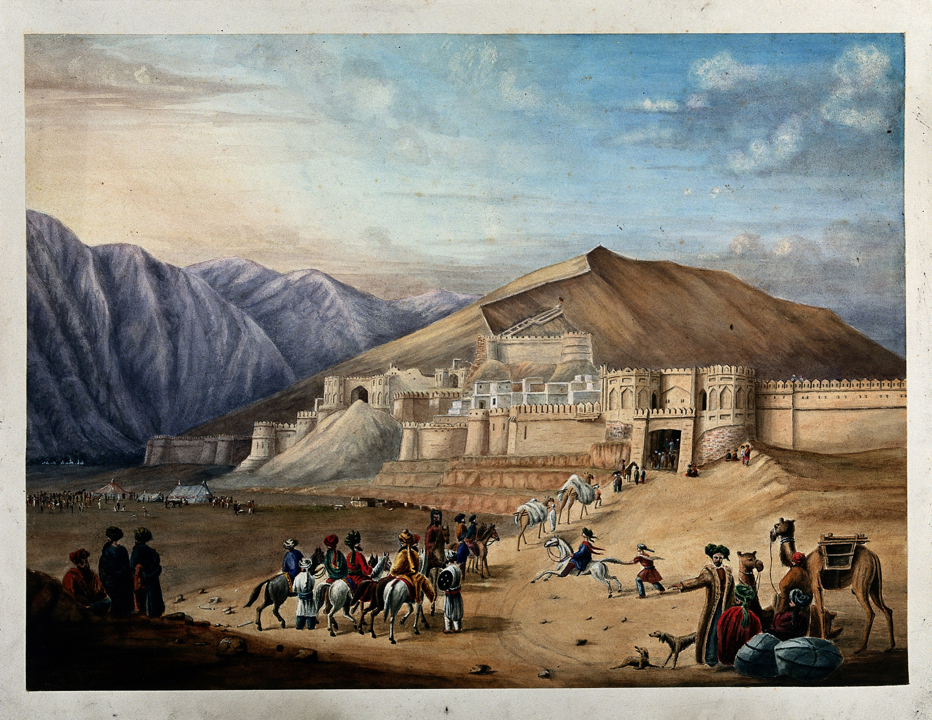 Horsemen assembled outside the city walls at Kabul, Afghanistan. Watercolour. Iconographic Collections